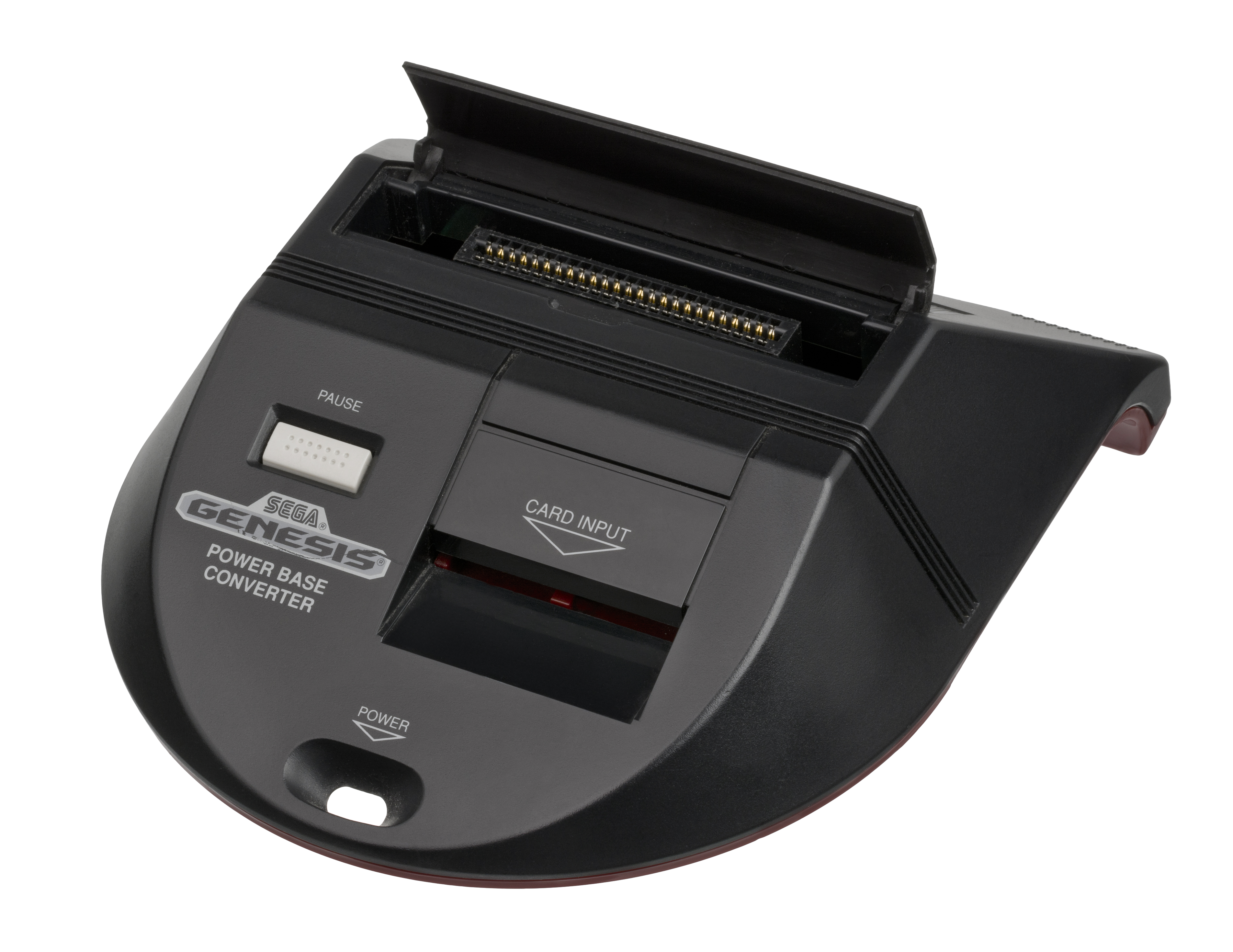 The Power Base Converter for the Sega Genesis video game console. With this attached into the Genesis cartridge slot you could insert and play Sega Master System cartridges and game cards on your Genesis.